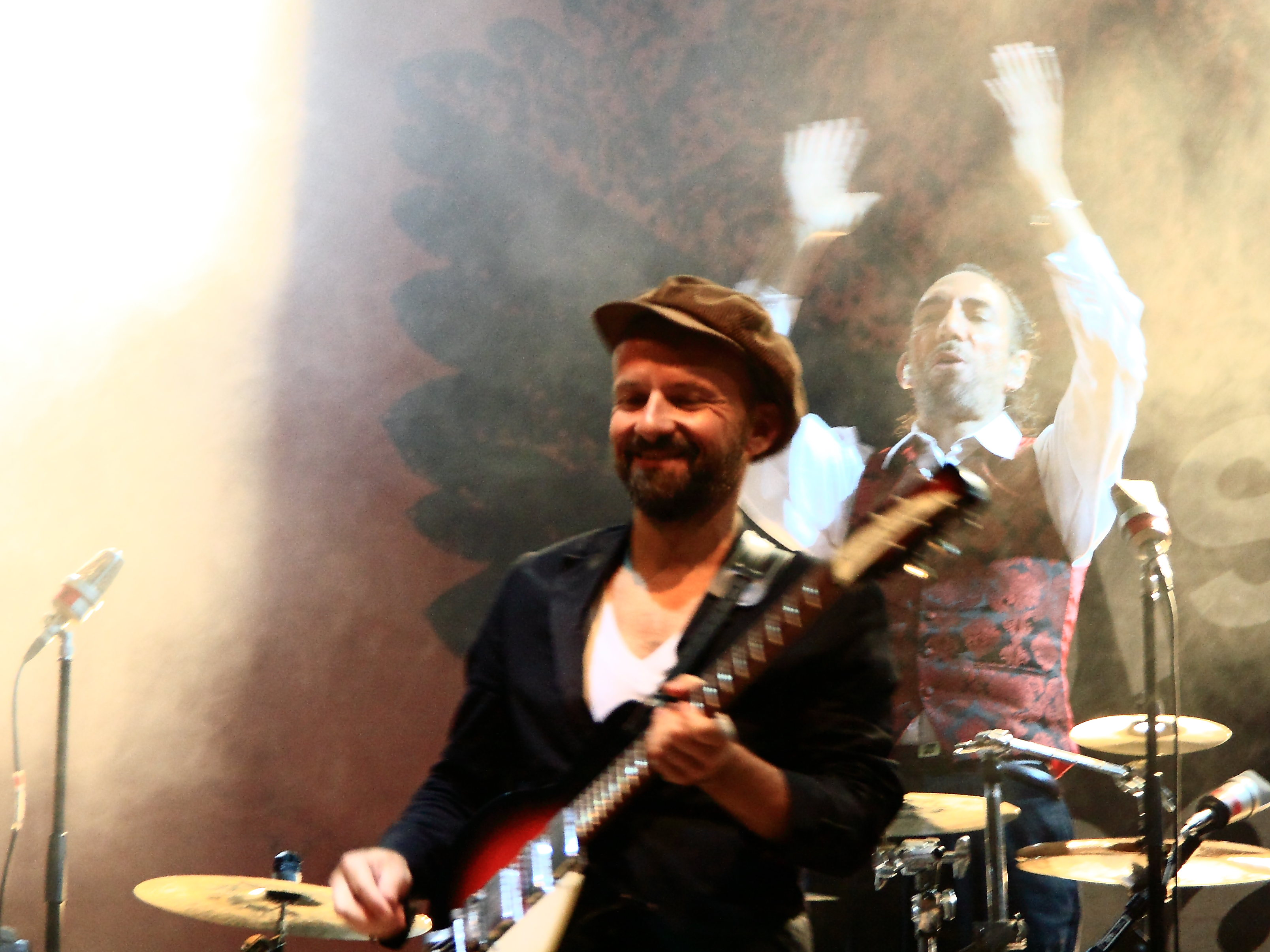 Shantel & Bucovina Club Orkestar at TFF Rudolstadt 2012.